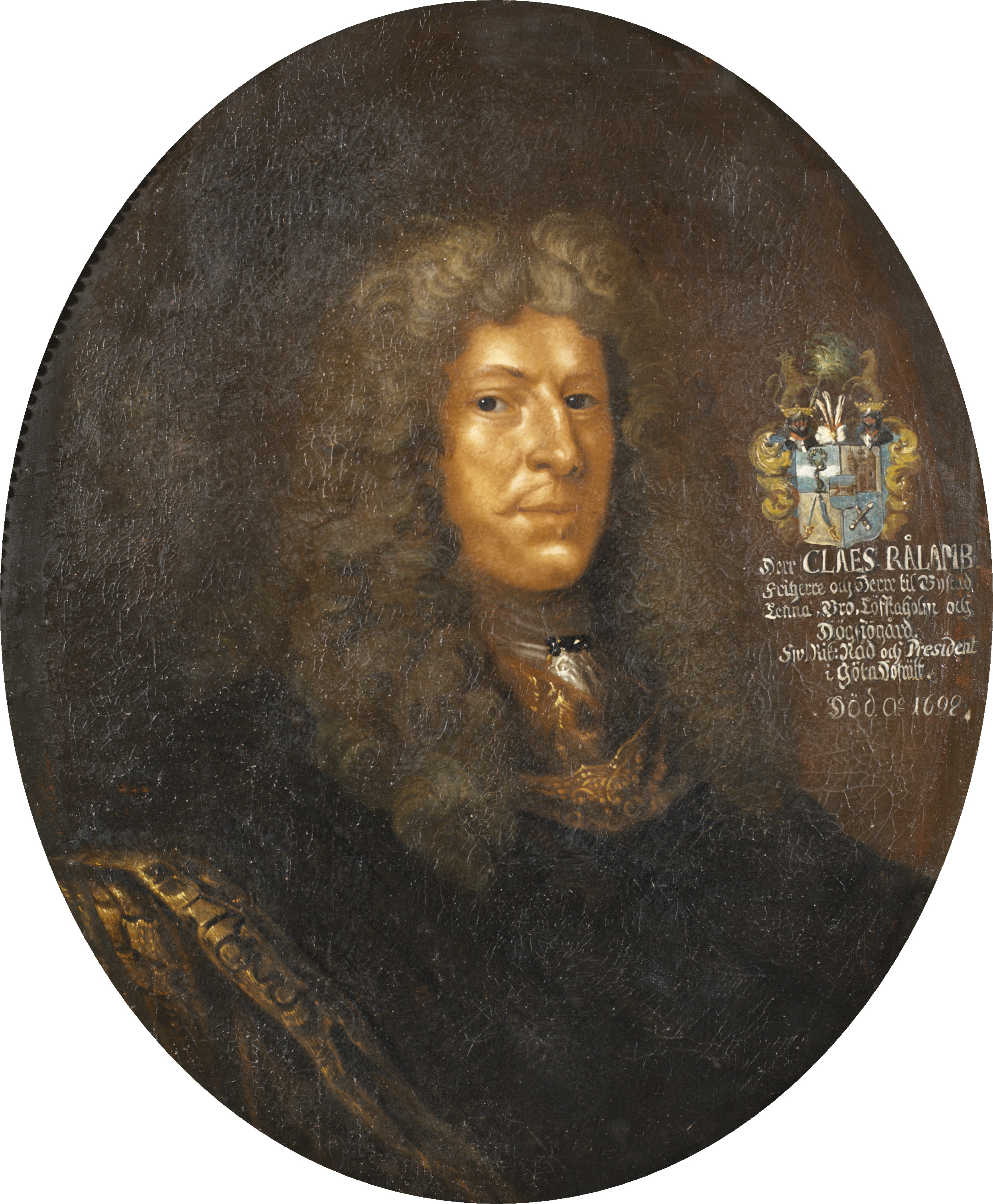 Claes Rålamb, 1622-1698